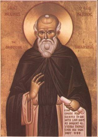 Icon of saint Maximus the Confessor